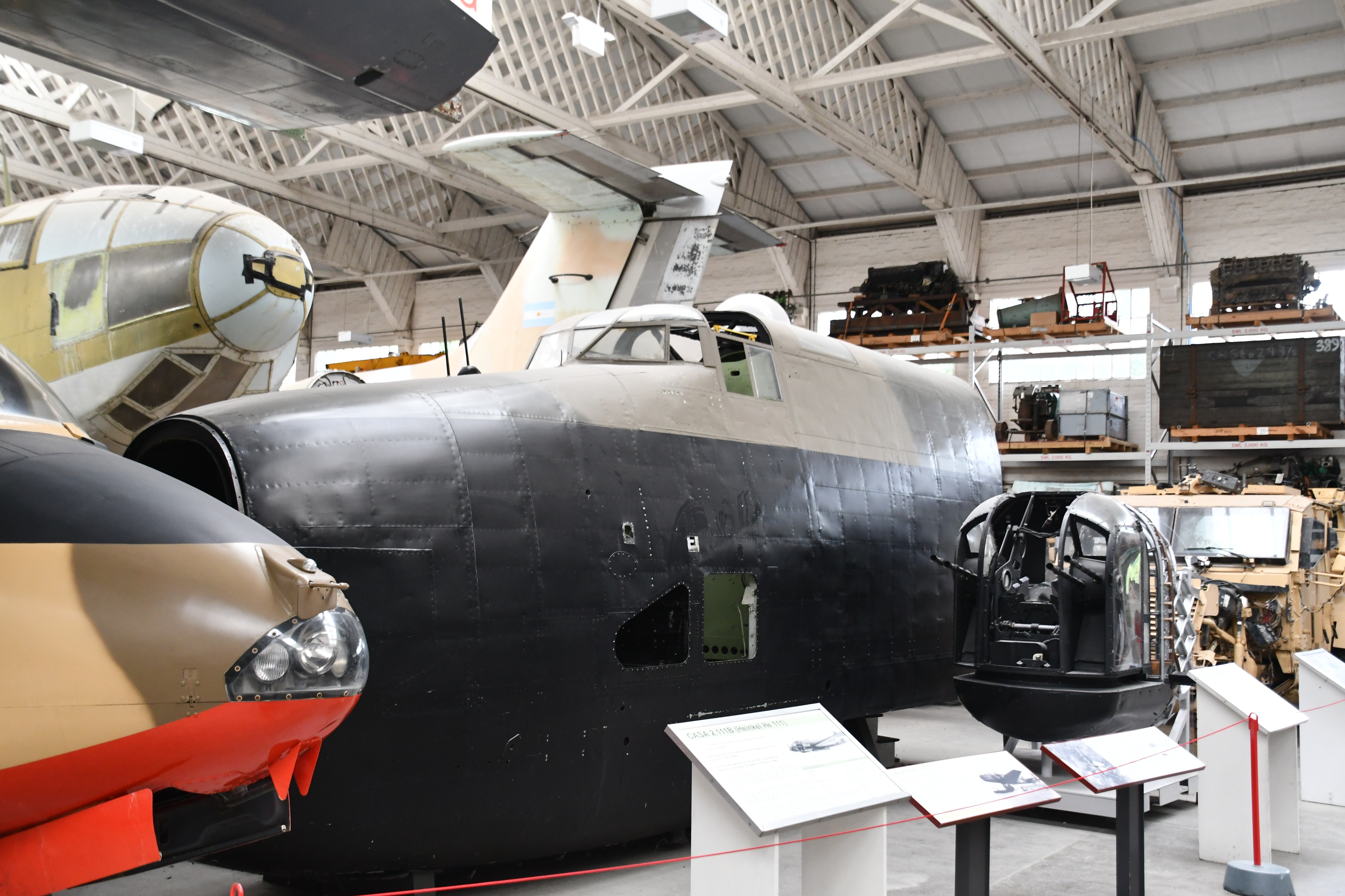 Halifax cell at the Imperial War Museum, Duxford